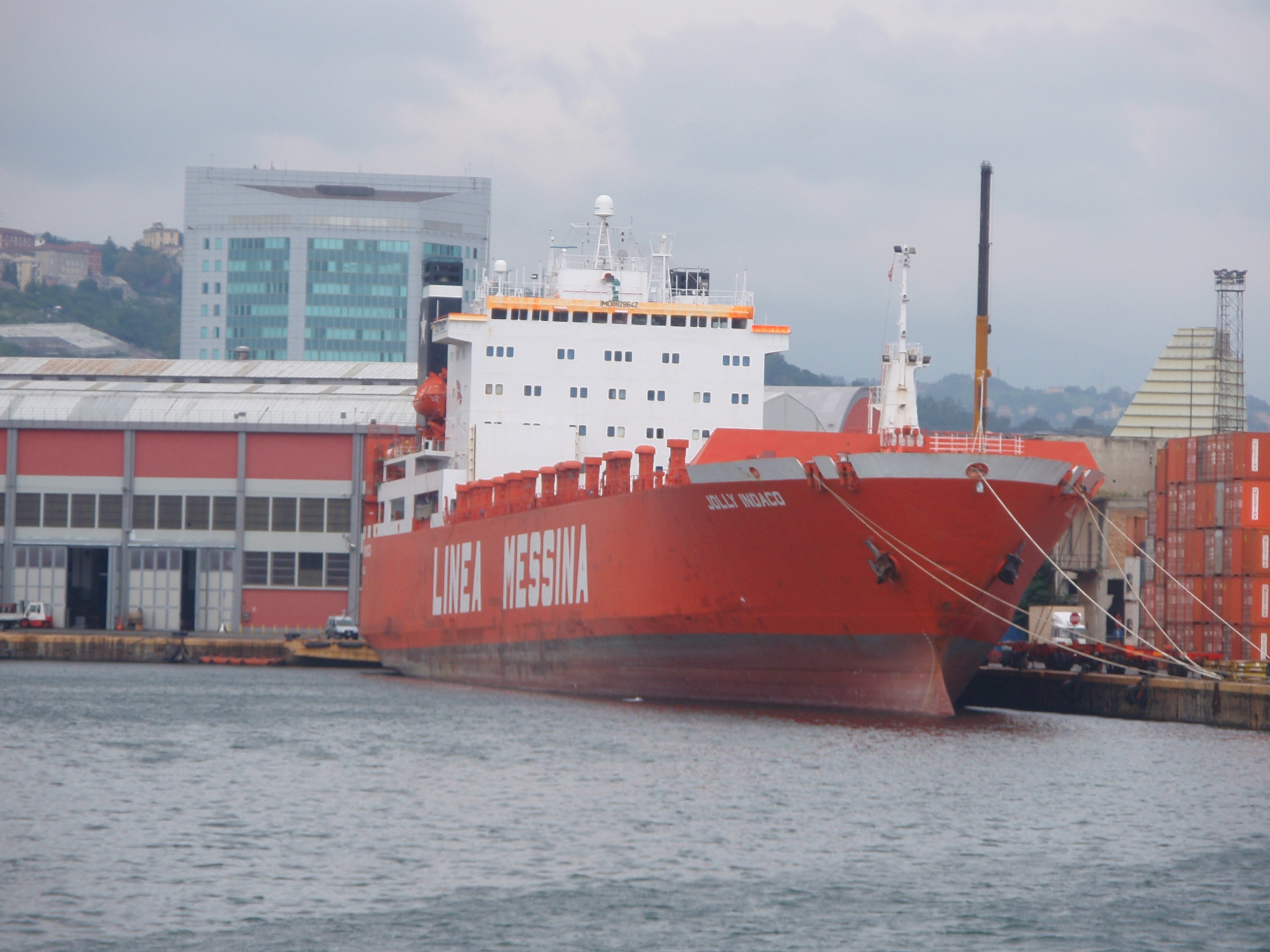 "Jolly Indaco" in Genua's harbour